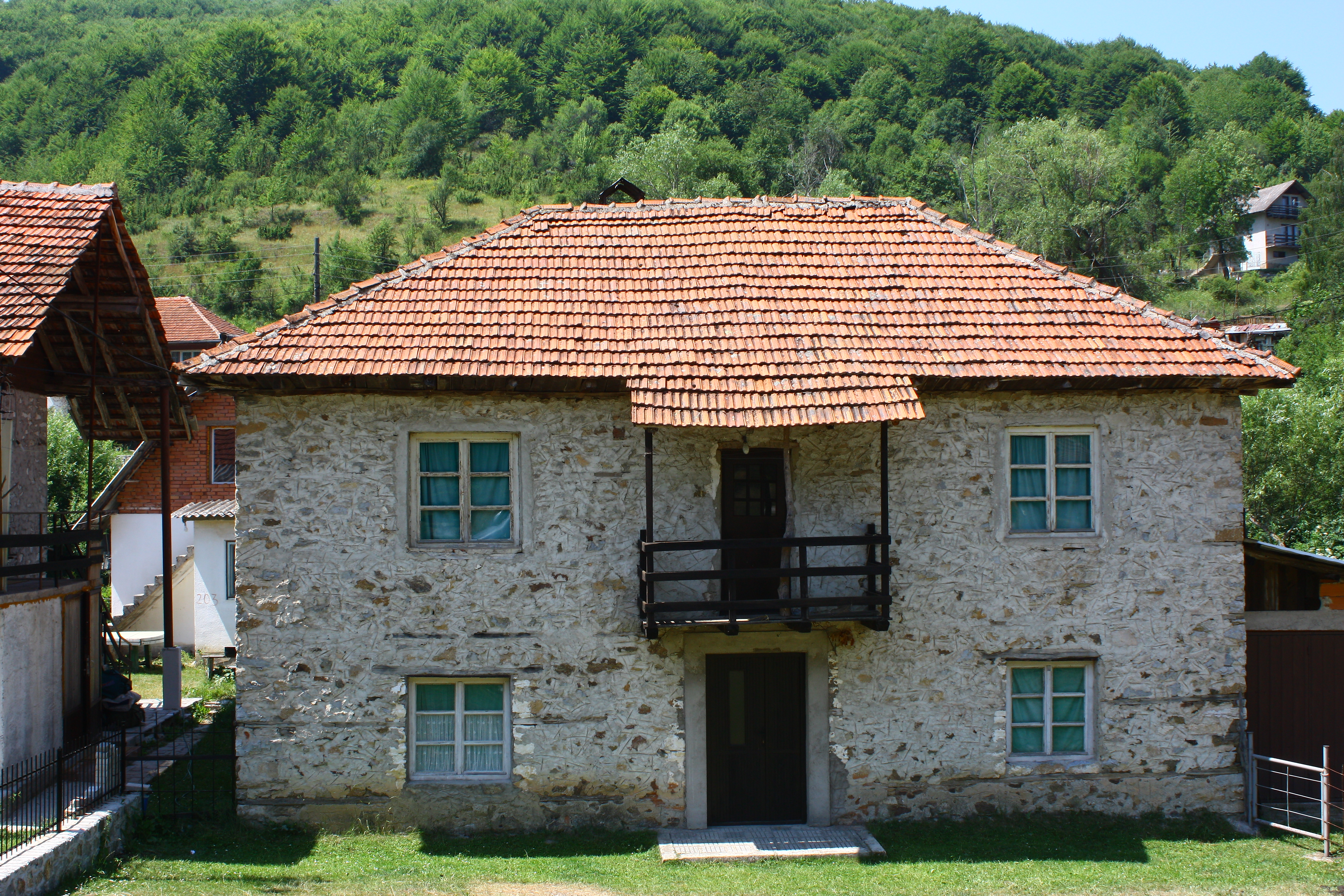 Leunovo, Macedonia